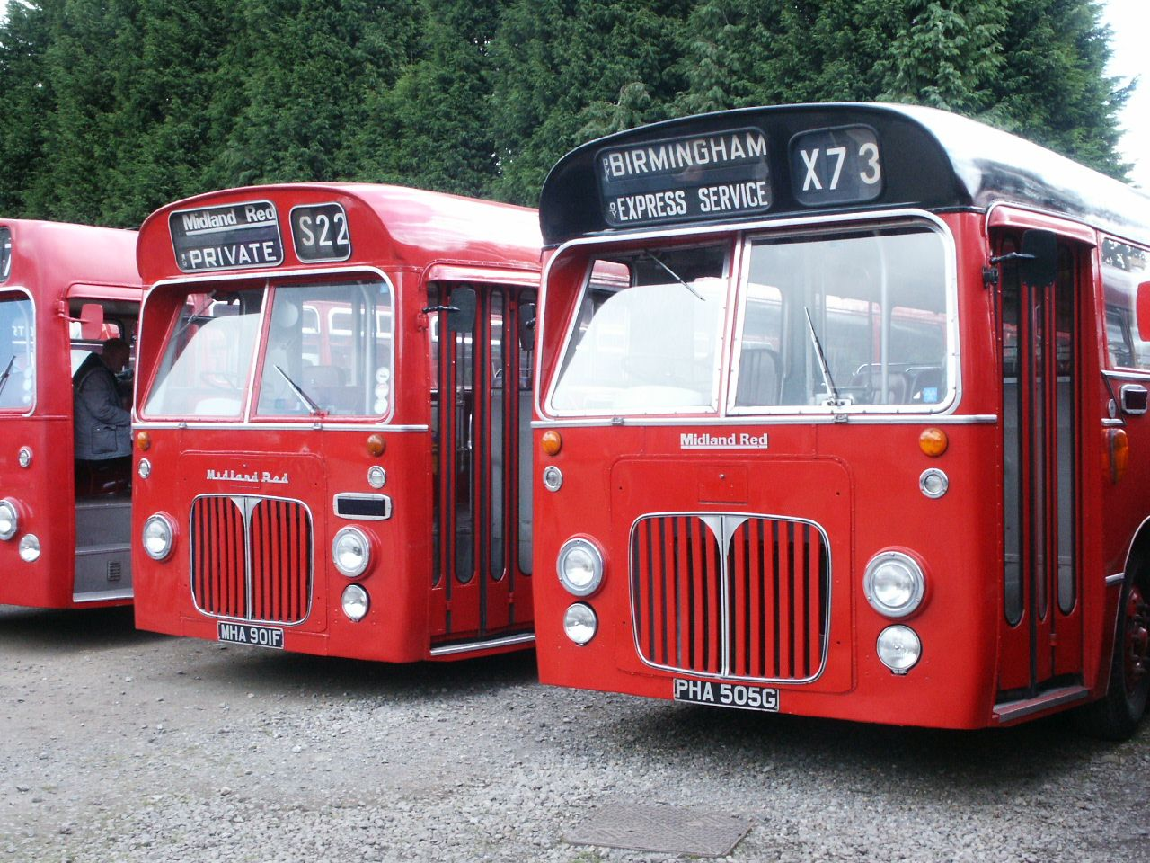 The last two S22s